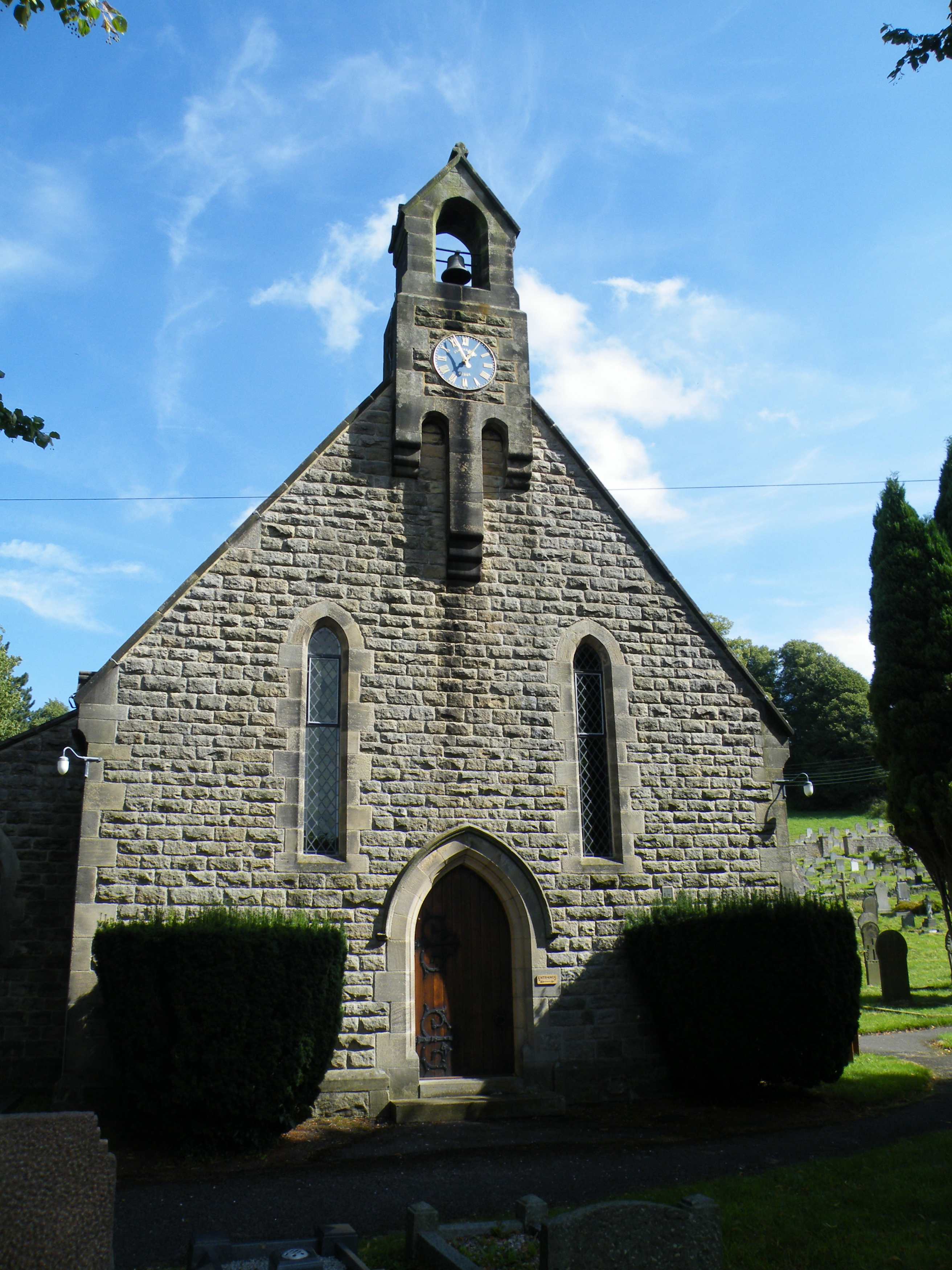 All Saints Church, Curbar Hill, Curbar - 5